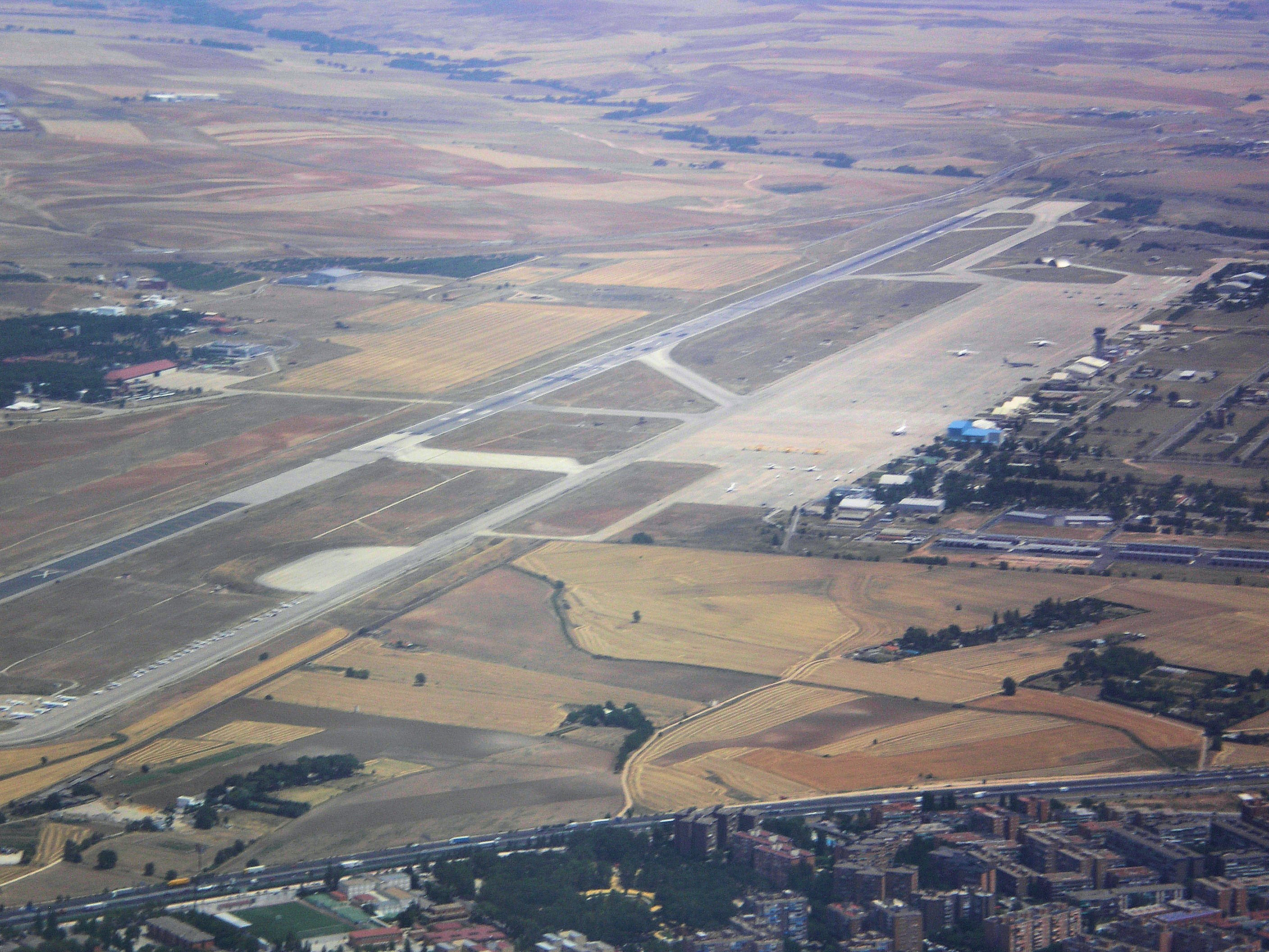 Airbase in Torrejón de Ardoz, Community of Madrid, Spain.